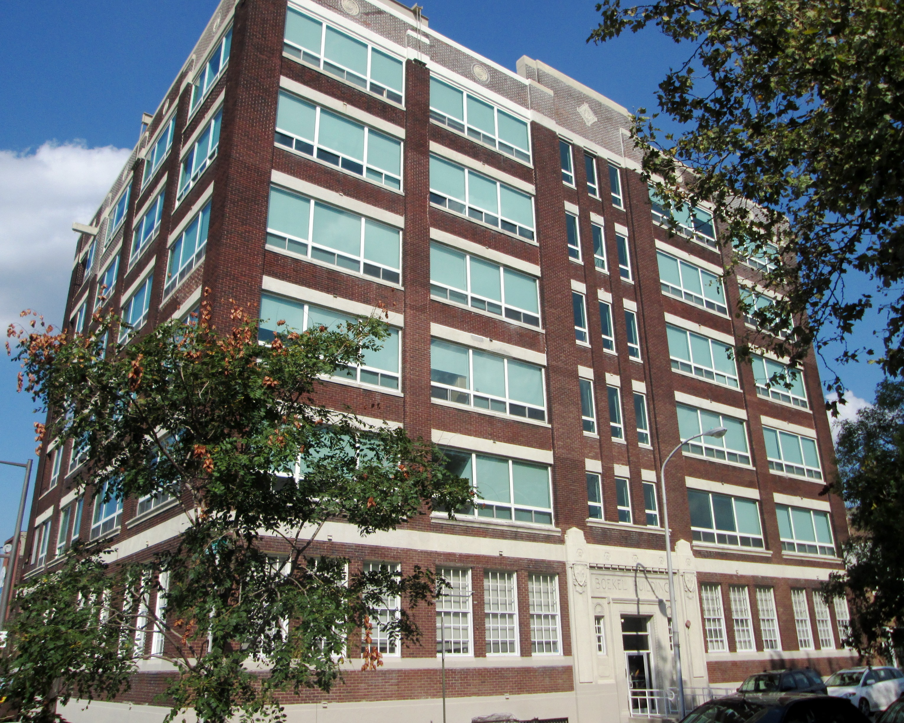 The Boekel Building at 505-515 Vine Street in the Old City neighborhood of Philadelphia, Pennsylvania, was built in 1922-23 and was designed by Clarence Wunder. It was added to the NRHP in 2003.